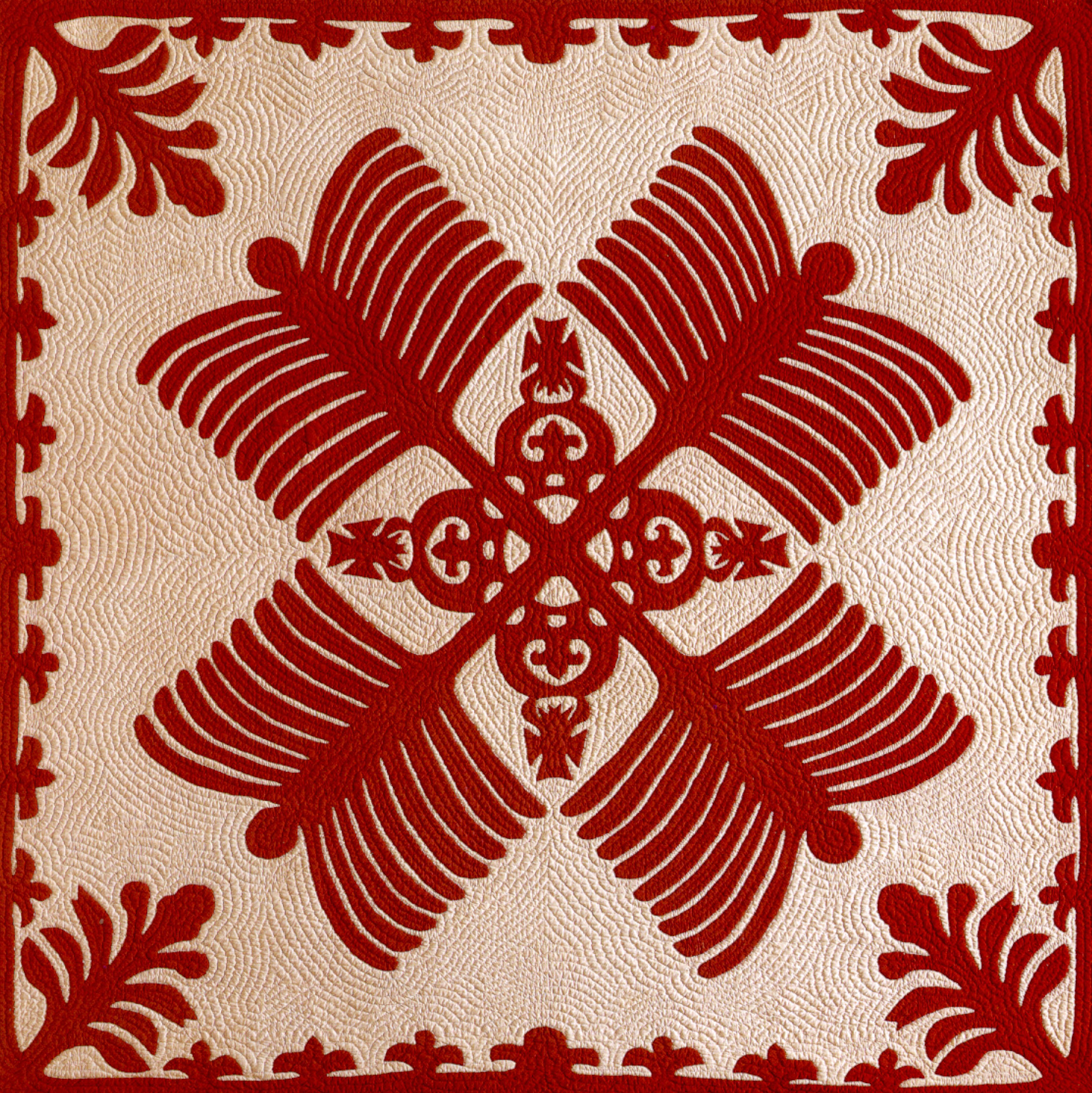 Na Kalaunu Me Na Kāhili, quilt attributed to Mary Sophia Rice, c. 1886, Honolulu Museum of Art